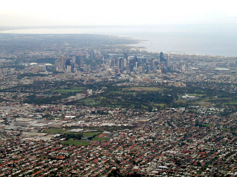 Aerial view of central Melbourne. (February 2005) Original text: View of Melbourne from a plane. Taken in February 2005 by myself.